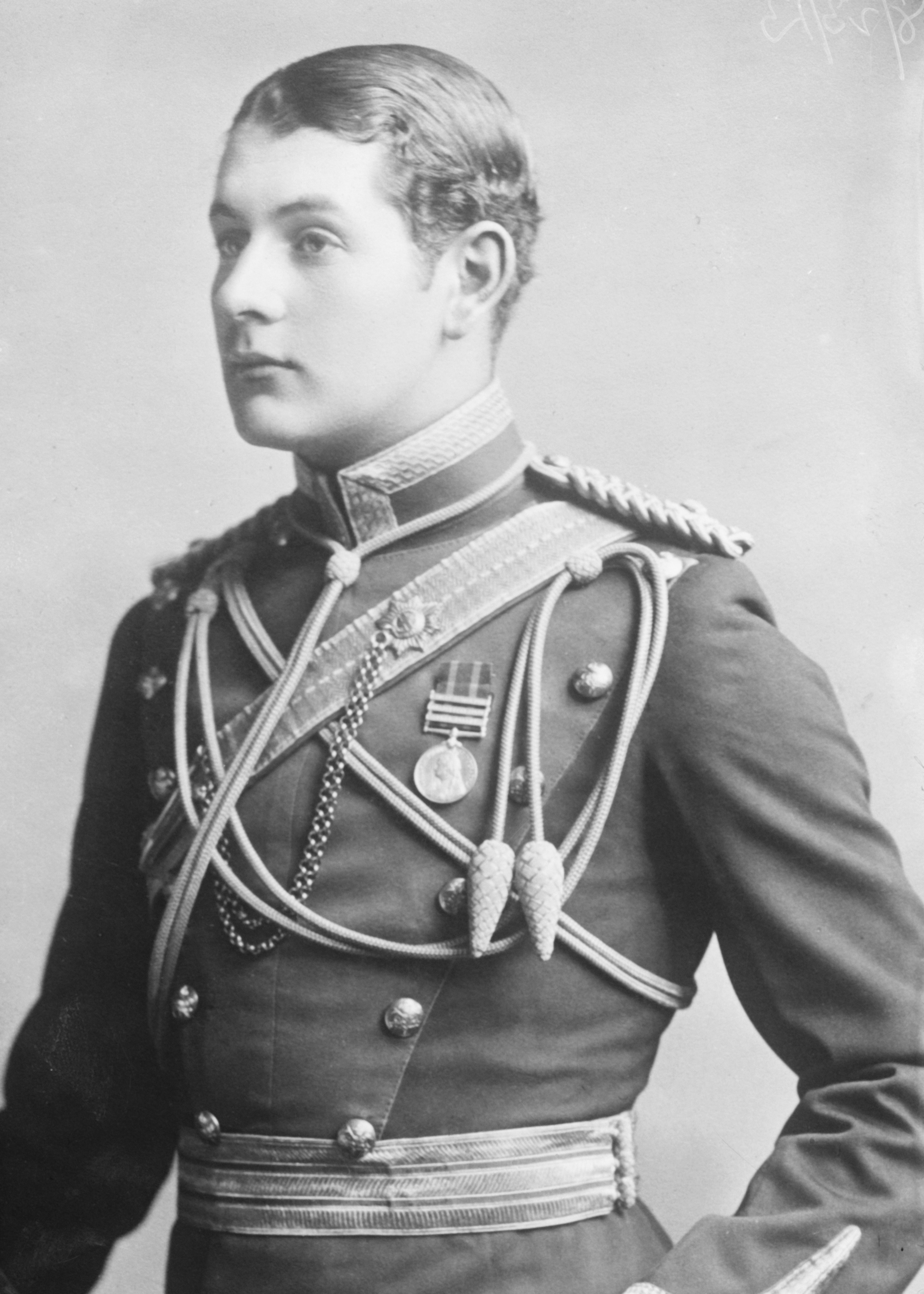 Bain News Service, publisher. Lord Rocksavage aka George Cholmondeley (1883-1968) Repository: Library of Congress, Prints and Photographs Division, Washington, D.C. 20540 USA, General information about the Bain Collection is available at Persistent URL: Call Number: LC-B2- 2798-14